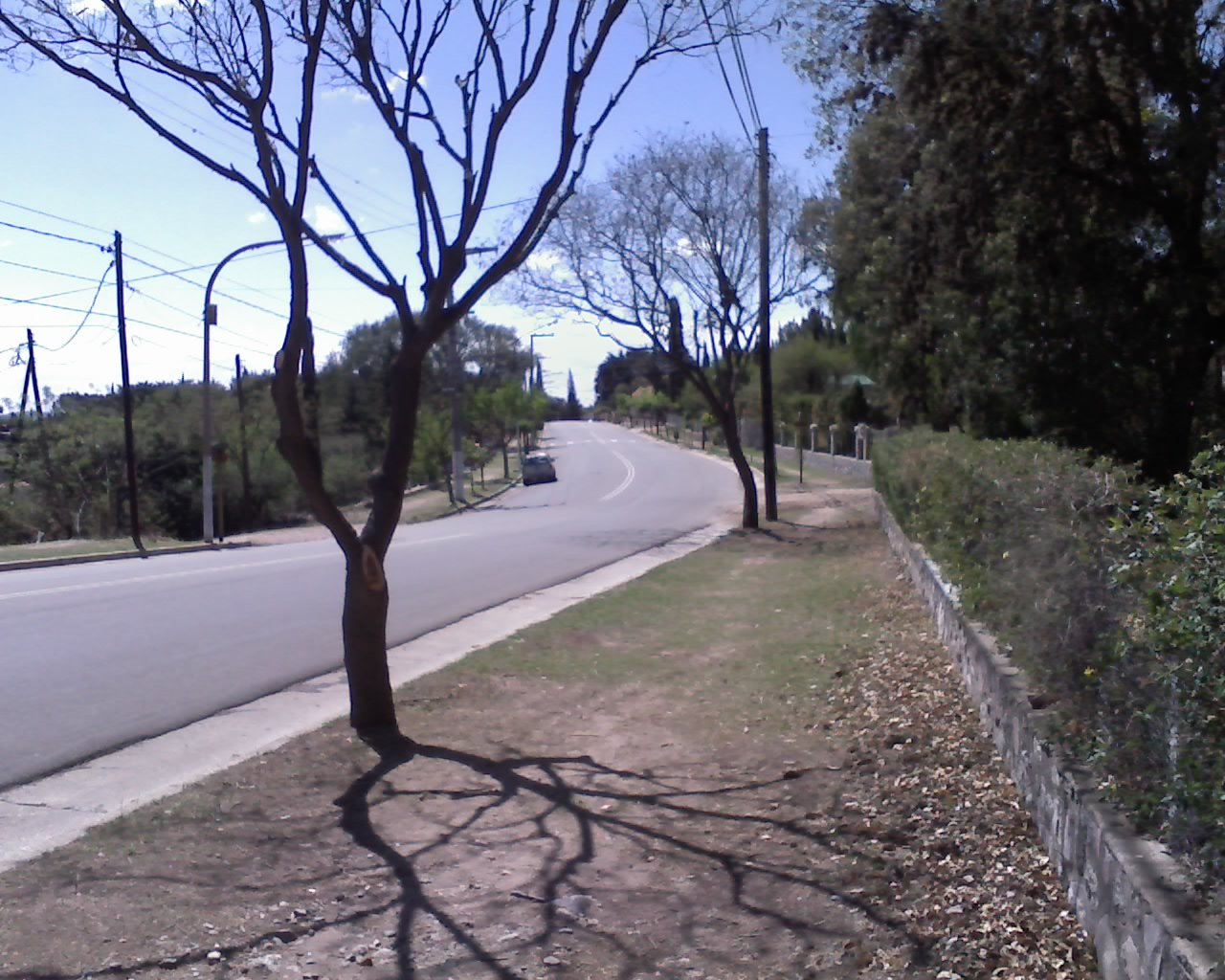 Cecilia Grierson Avenue, in Los Cococs, province of Córdoba, Argentina